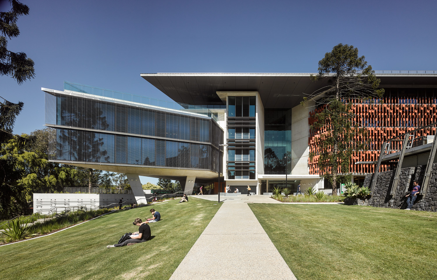 The Advanced Enginering Building in collaboration with HASSELL